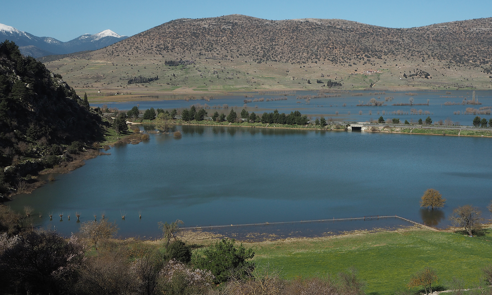 “Argon Pedion”, temporary lake in a closed karst basin, “Nestani-Sagka-Polje” (length:ca. 4 km, separate part of the ca. 30 km long Tripoli-Karst-Basin in the Arcadian highland, Peloponnese). This part of the polje is mainly grassland for herding sheep and goats. Soil, weathered rock material and a richer vegetation of the mountains have been washed down into the basin, degraded shrubs on a thin surface layer are what is left. The name Argon Pedion (Greek for untilled plain) is documented in the “Description of Greece”, a book by the ancient geographer Pausanias (110-180 AD). Pausanias already saw the flooded plain, similar to the photo, but the look of the mountains might have been greener than today.